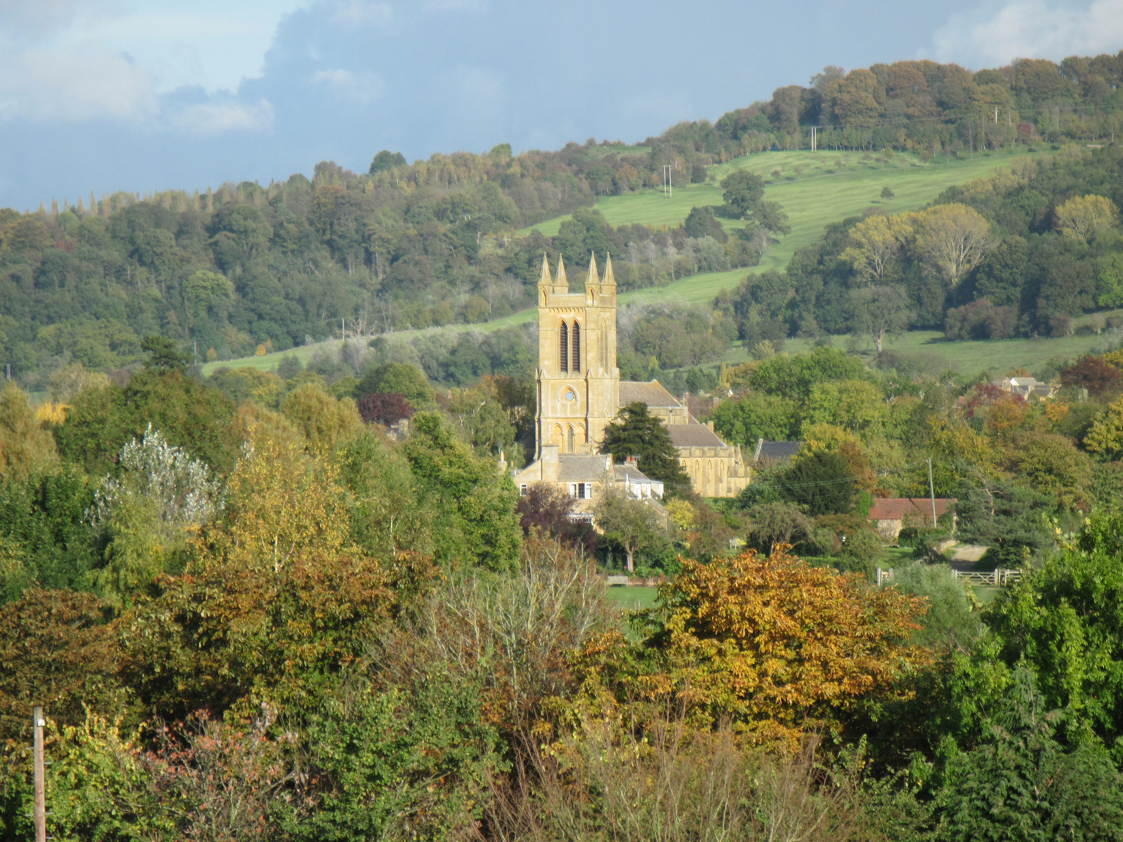 St Michael & All Angels Church, Broadway, Worcestershire, England